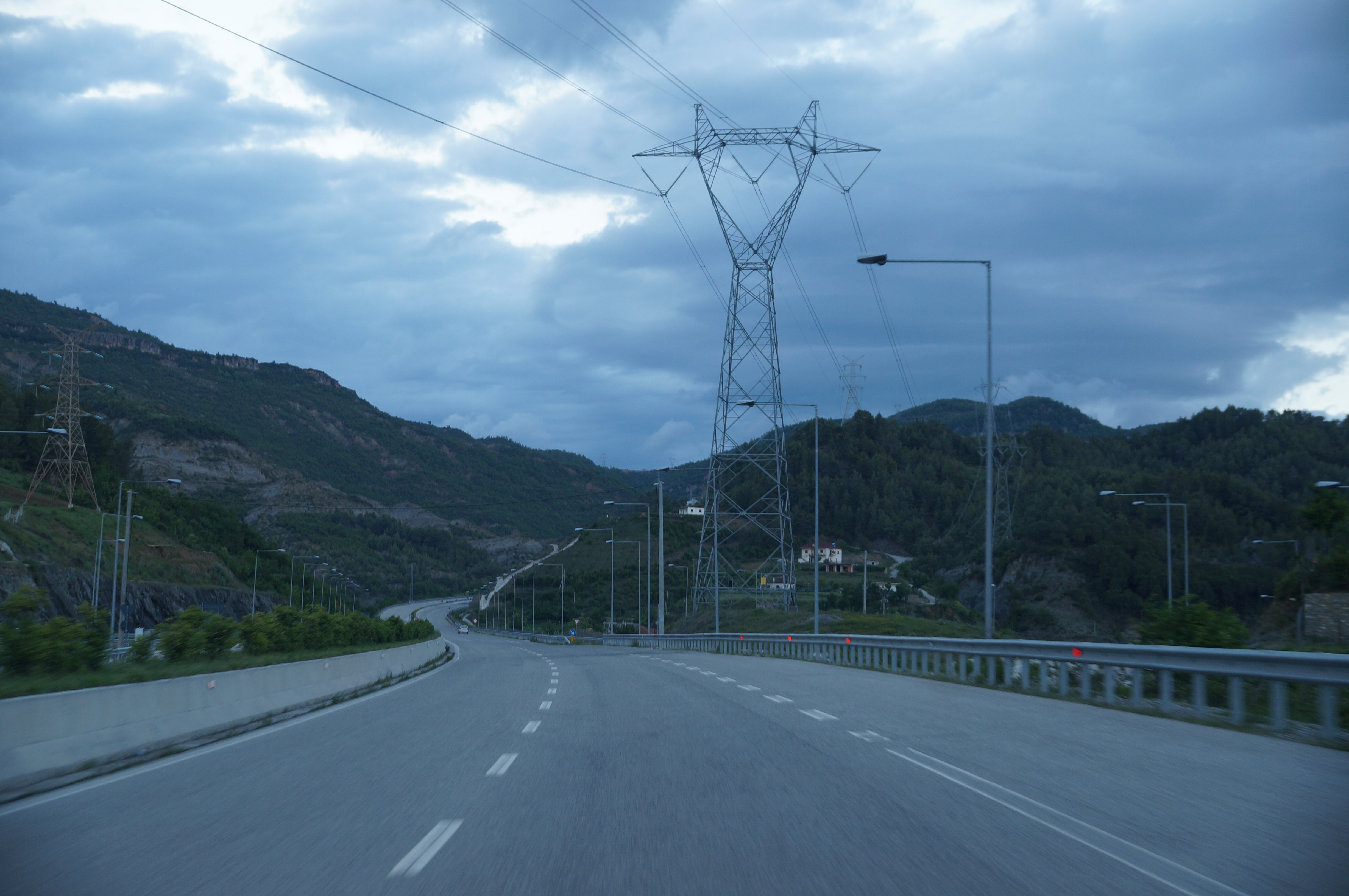 Driving North on Autostrada A3 from Elbasan to Tirana